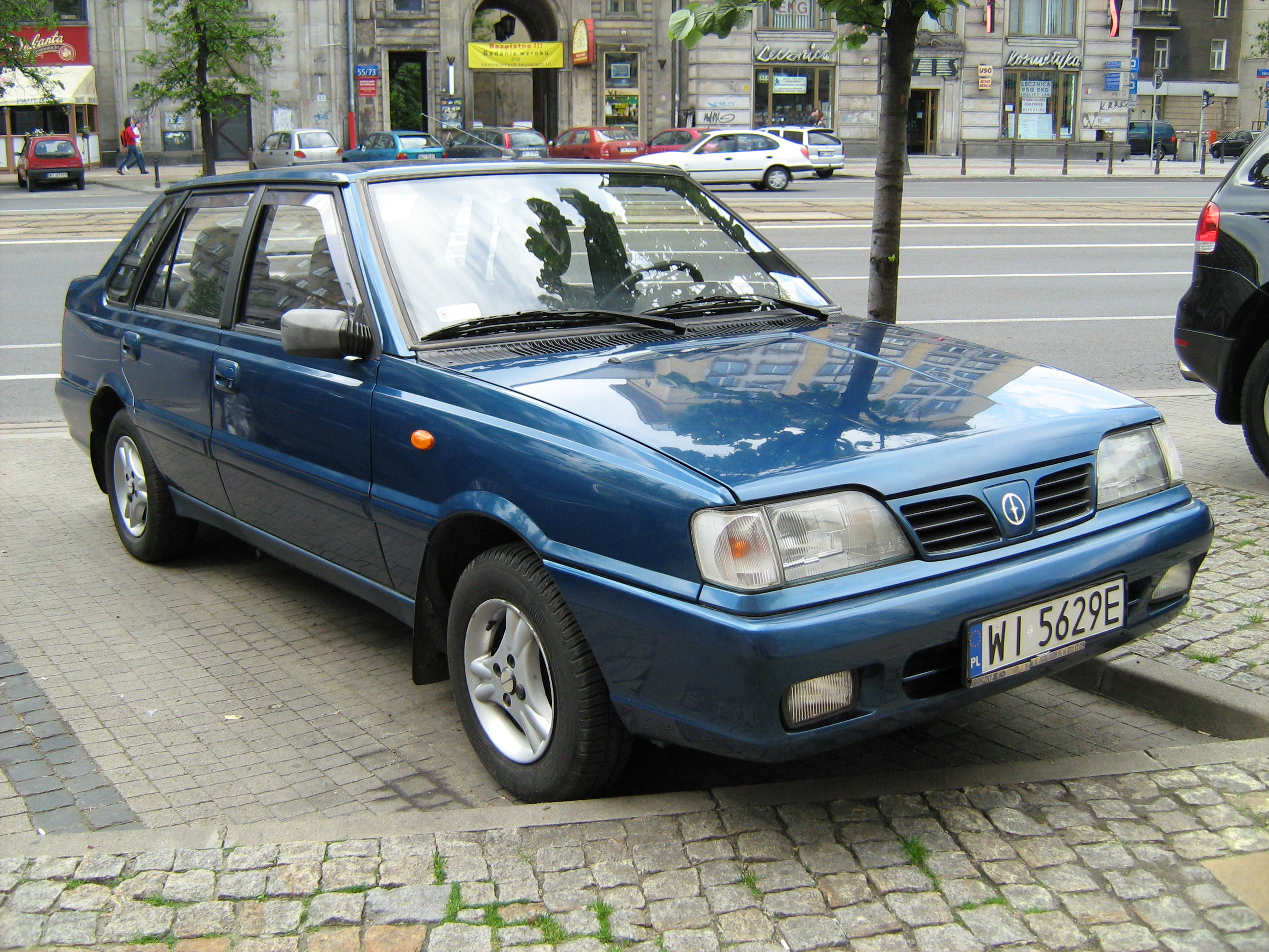 Daewoo-FSO Polonez Atu Plus sedan finished in blue. Picture taken in Warsaw Poland.